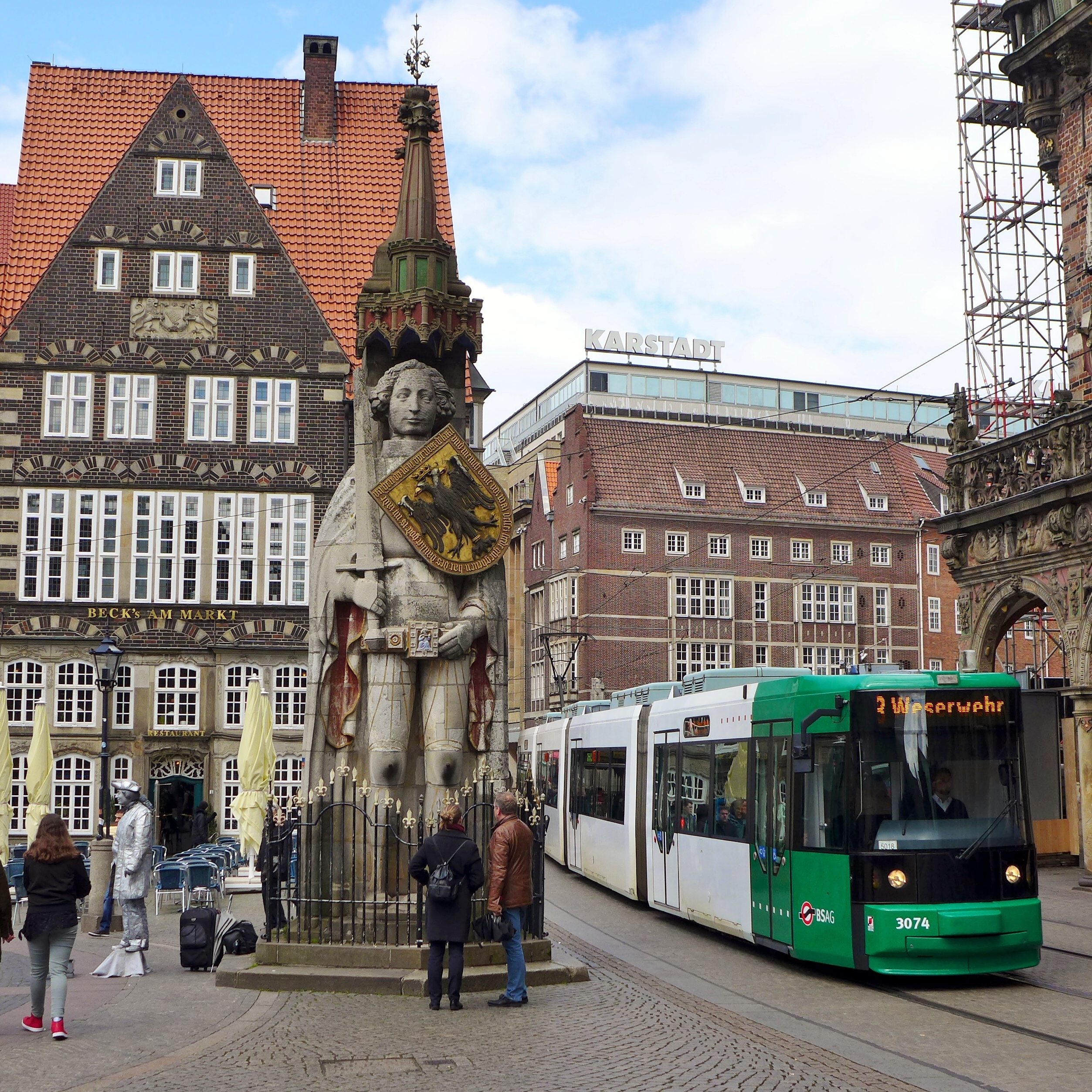 Bremer Straßenbahn AG (BSAG) tram no. 3074 operating a Weserwehr-bound line 3 service along Am Markt as it enters the Bremer Marktplatz, Bremen, Germany. The Bremen statue of Roland is at left.